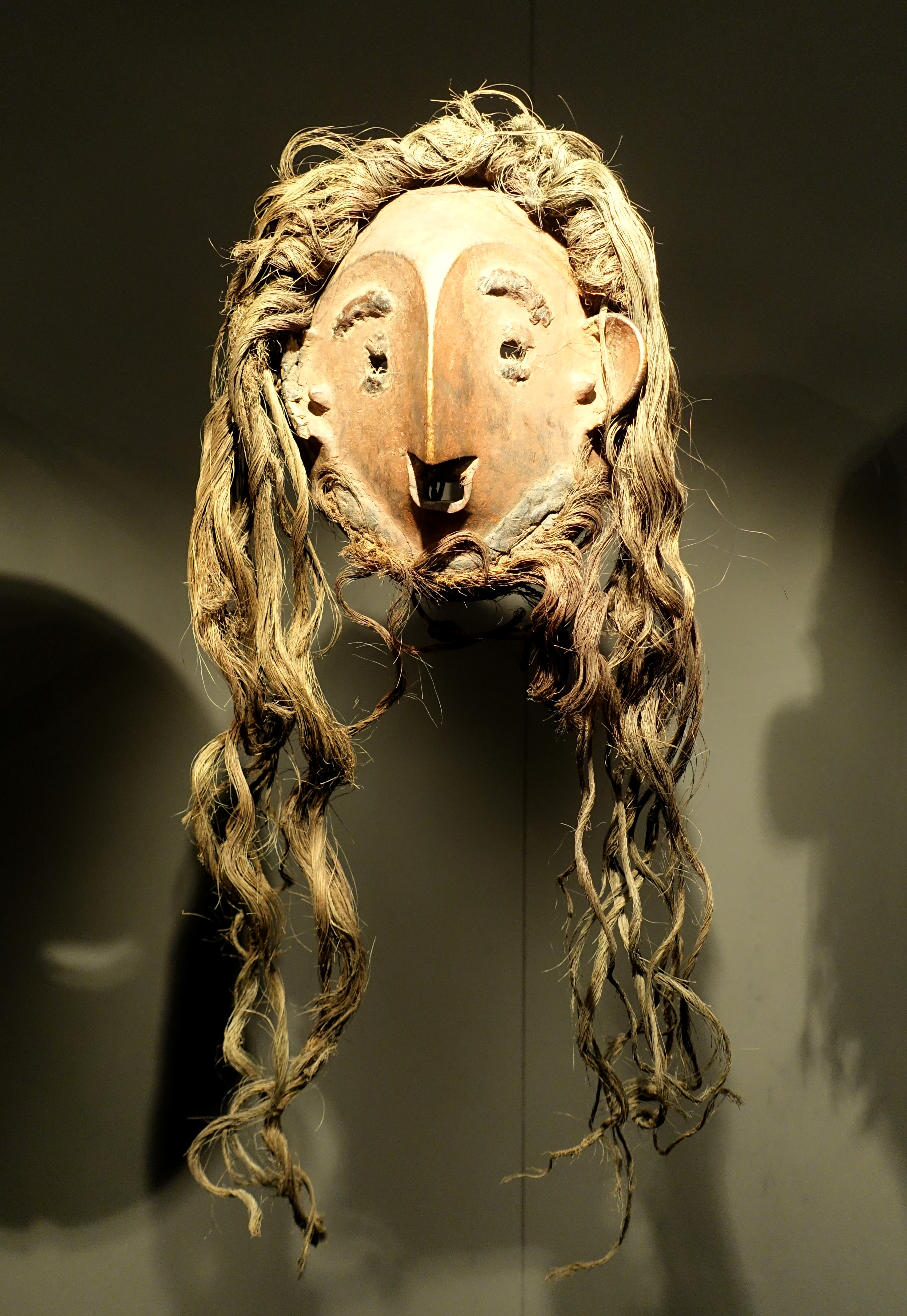 Exhibit in the Ethnological Museum, Berlin, Germany.